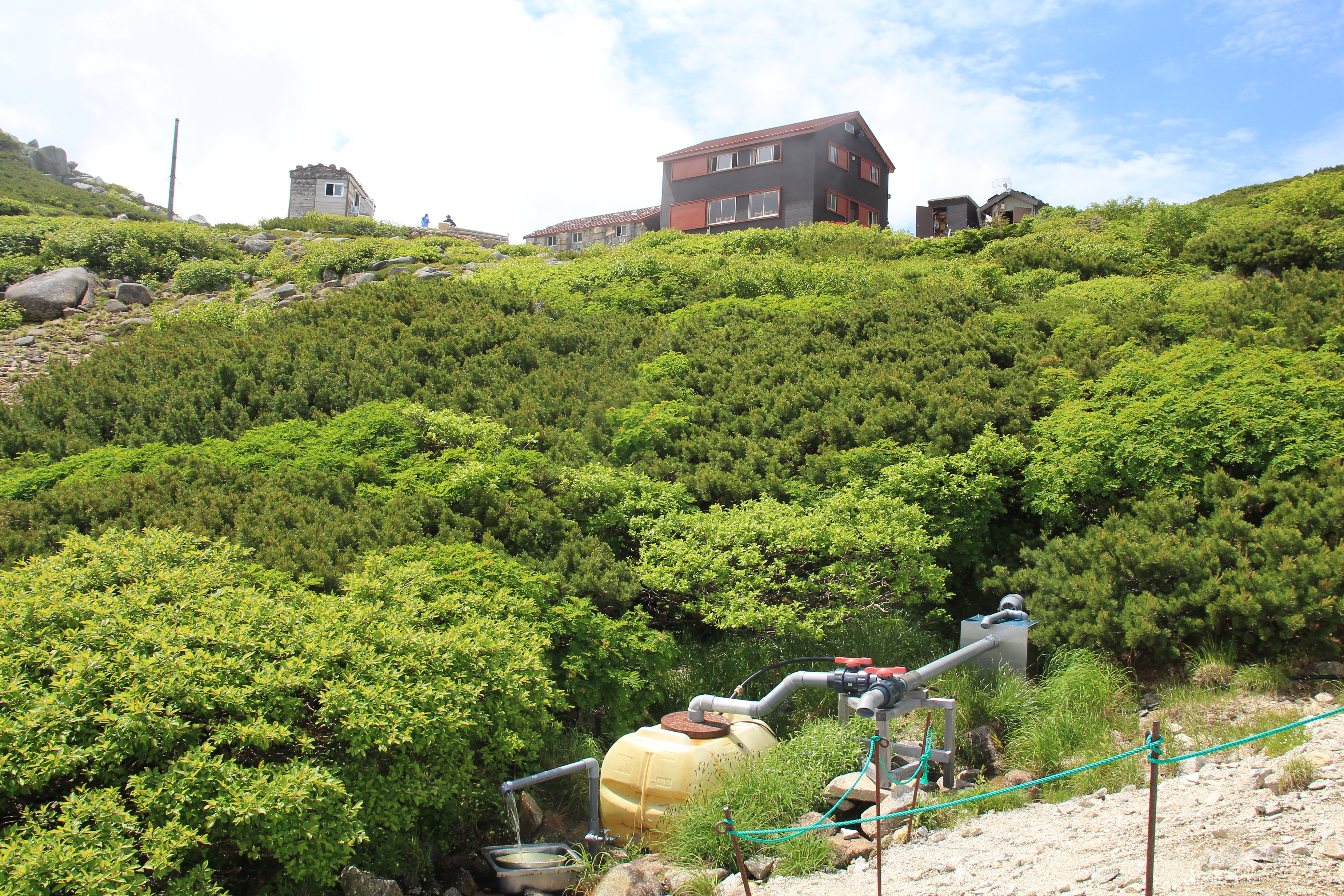 Tenmeisui and Nishikoma Sanso Ishimuro around the peak of Mount Shogigashira in Kiso Mountains, Ina, Nagano Prefecture, Japan.